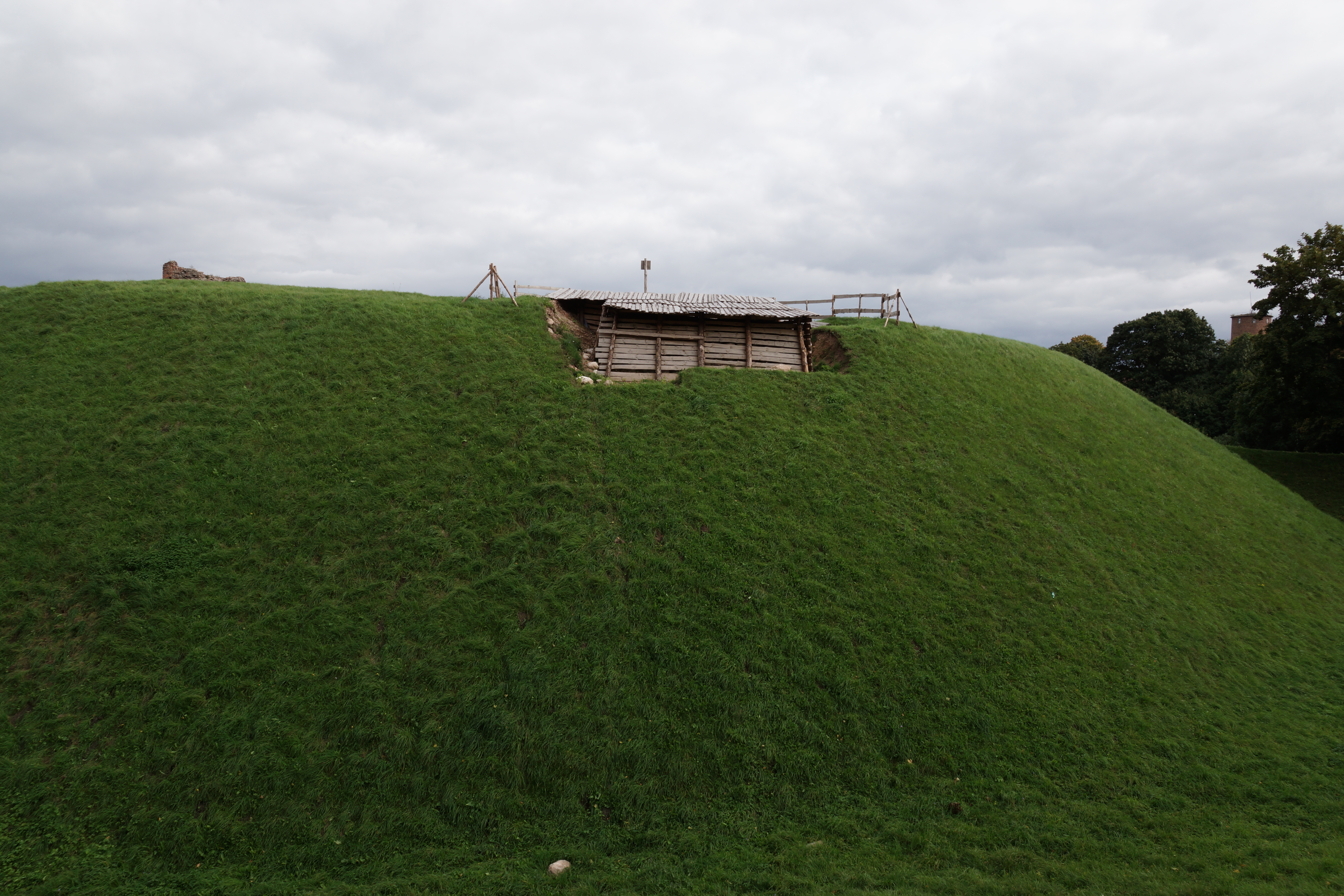 Беларуская (тарашкевіца): Рэшткі замка. г. Наваградак This is a photo of Belarusian heritage monument. Reference number: 411Г000404 ( WLM)